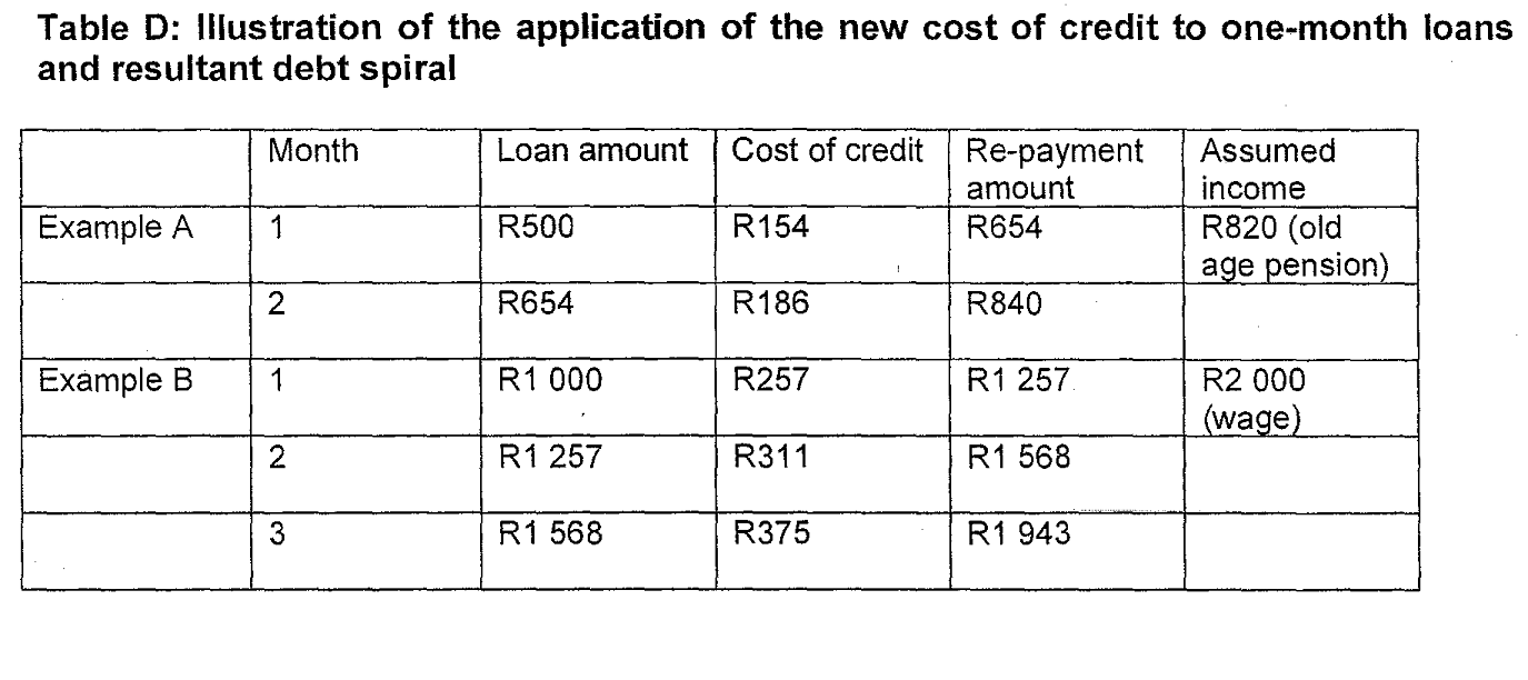 The new cost of credit in South Africa, applied to two examples.